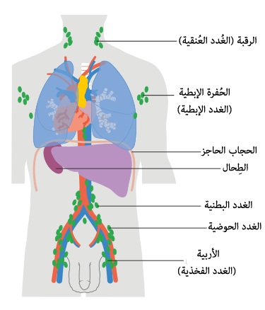 Diagram showing the lymph nodes lymphoma most commonly develops in.